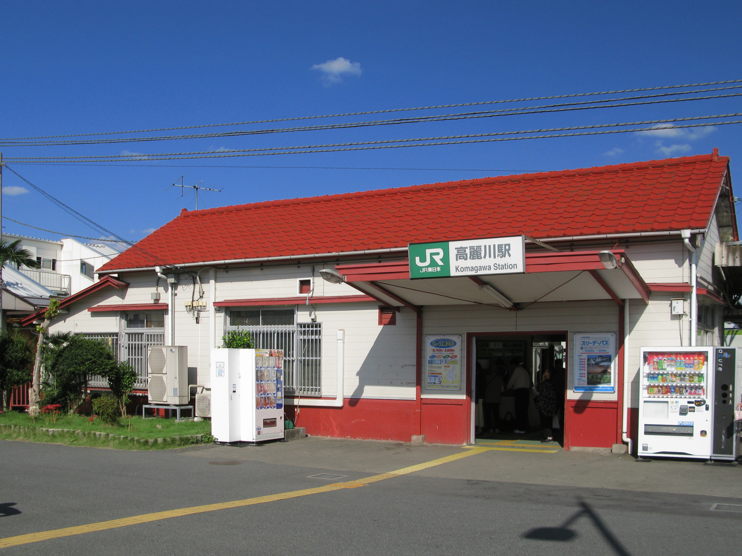 Entrance of Komagawa Station on the Hachiko and Kawagoe Line in Hidaka, Saitama